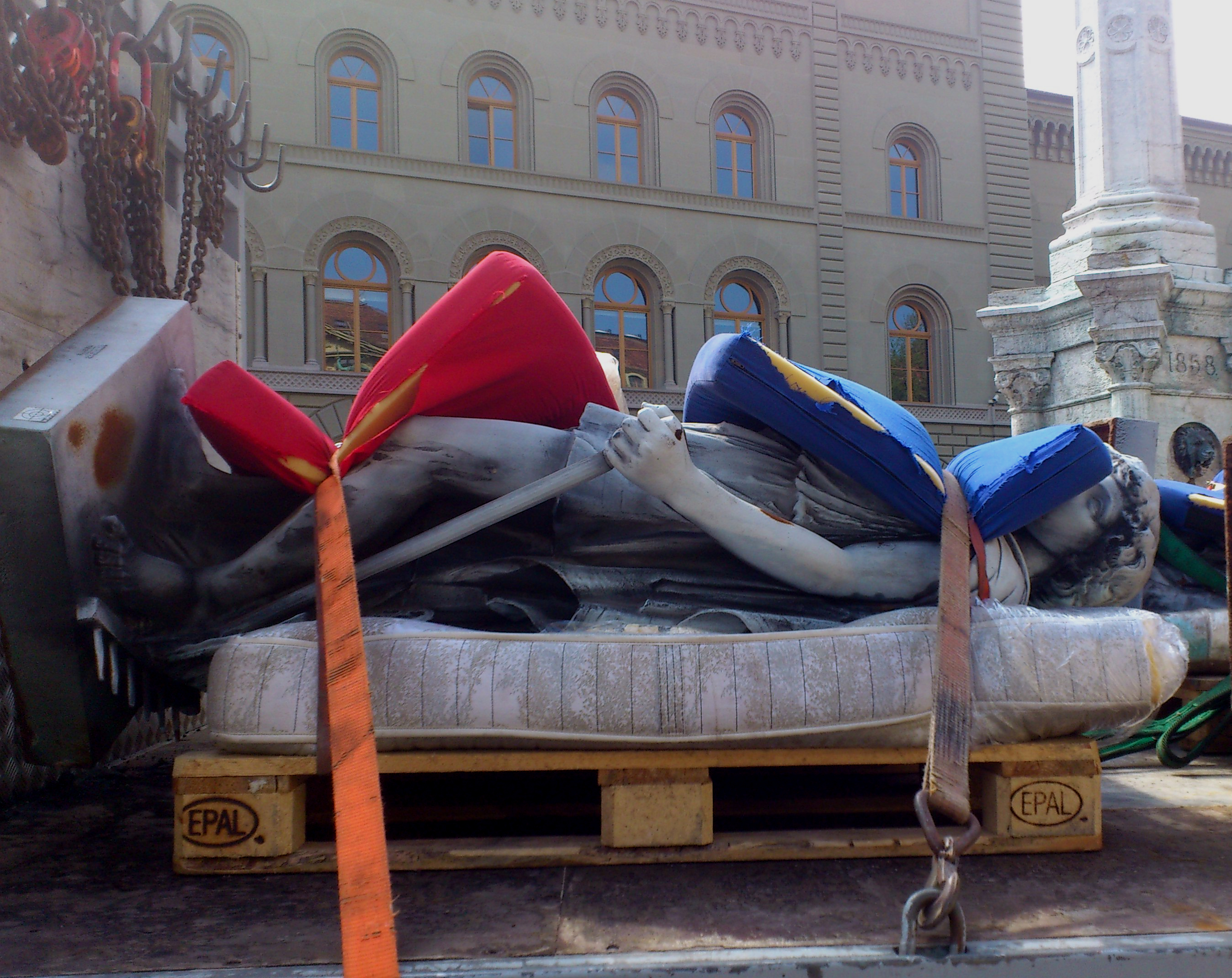 Bernabrunnen (fountain of Berna) in Bern (Switzerland): one of four smaller statues is prepared for a transport to renovation